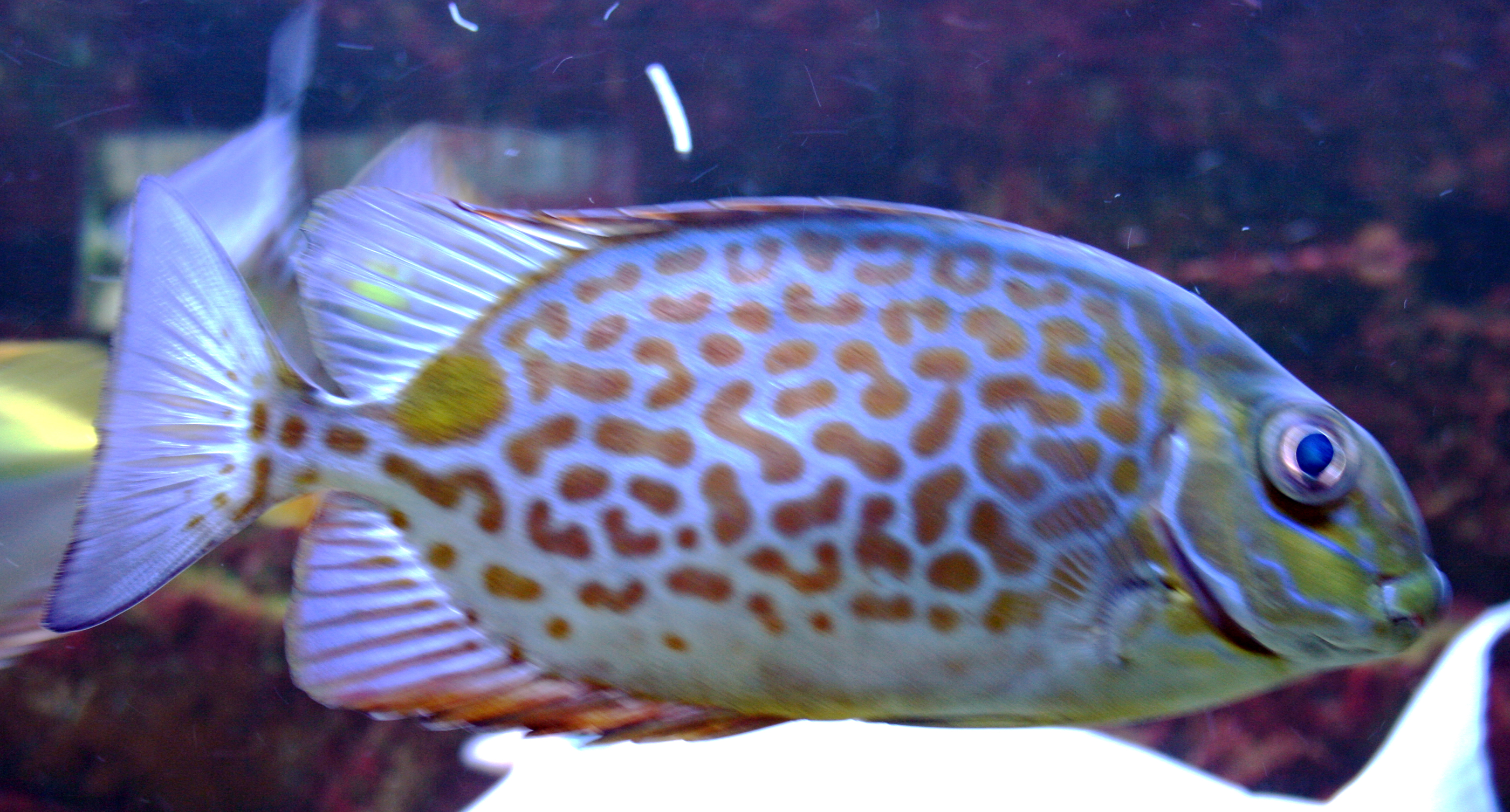 Fish Siganus guttatus, Siganus guttatus in Prague sea aquarium, Czech Republic